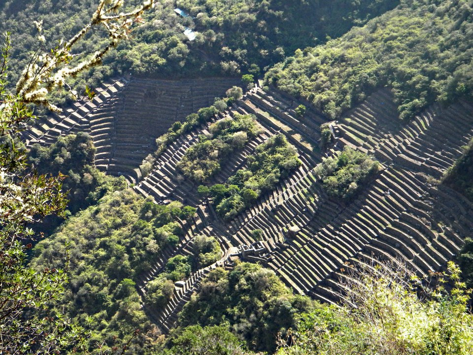 choquequirao terraces